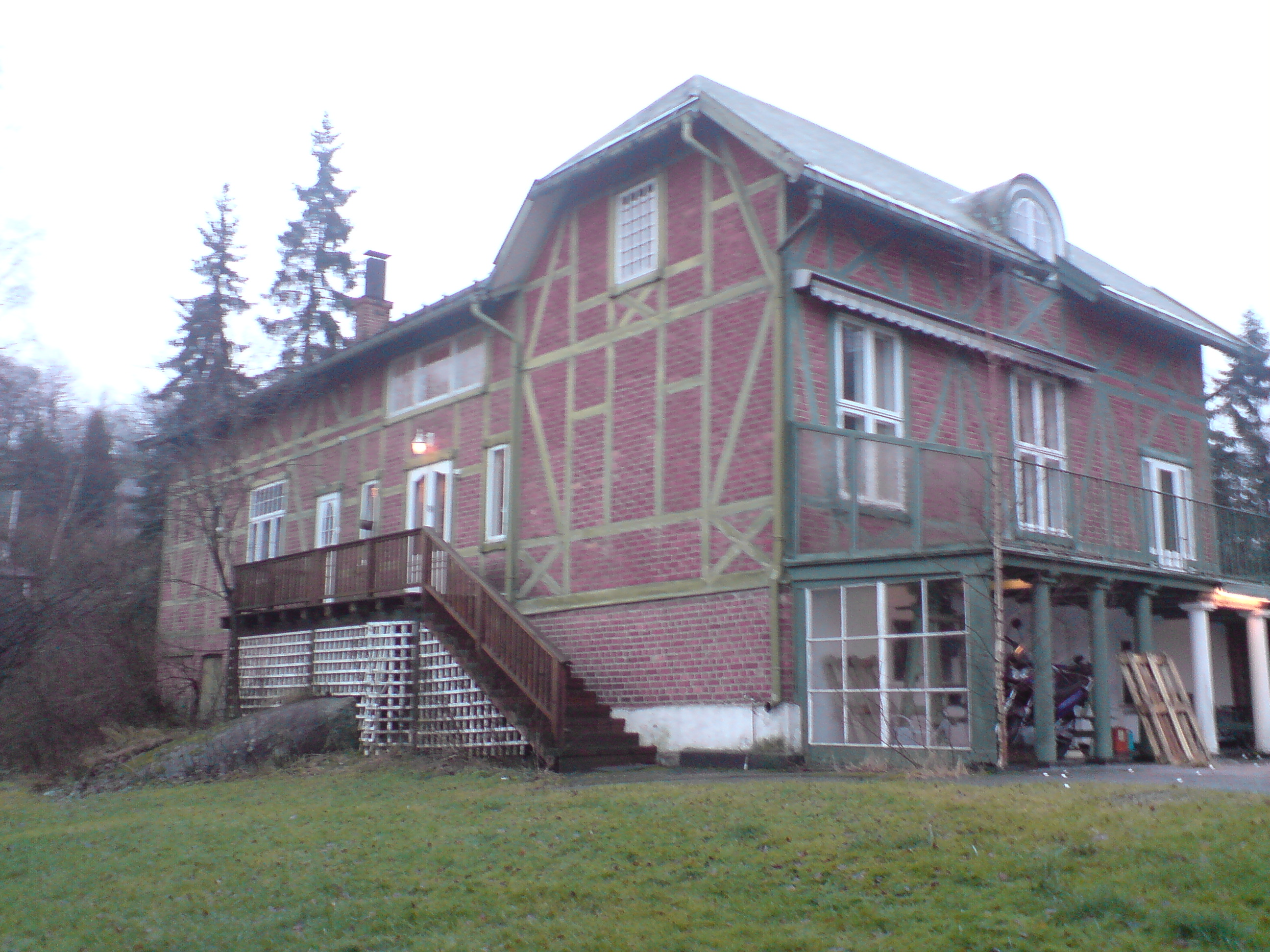 Christinedal, Harry Fetts house in Oslo